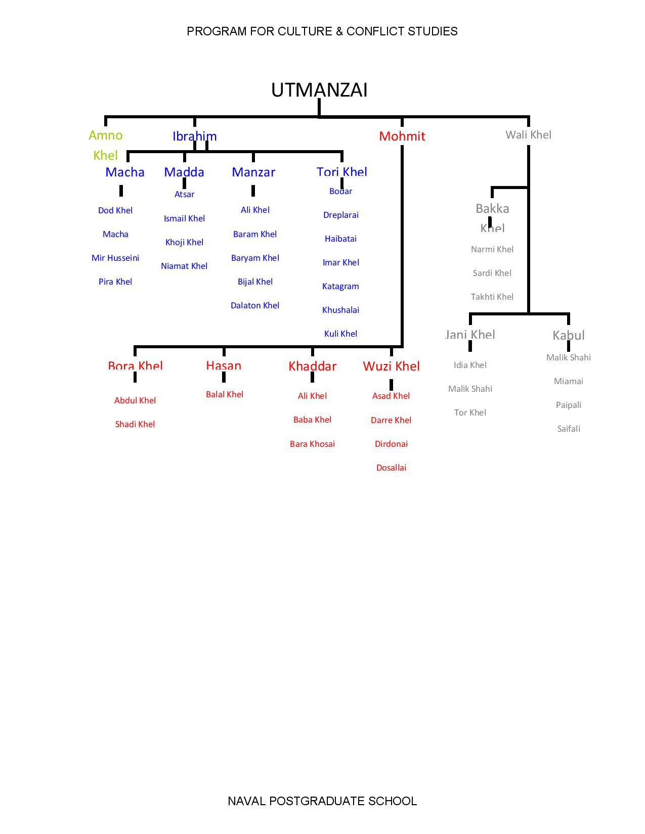 A chart showing the various subtribes of the Utmanzai tribe found in Pakistan. Converted to JPG from PDF.